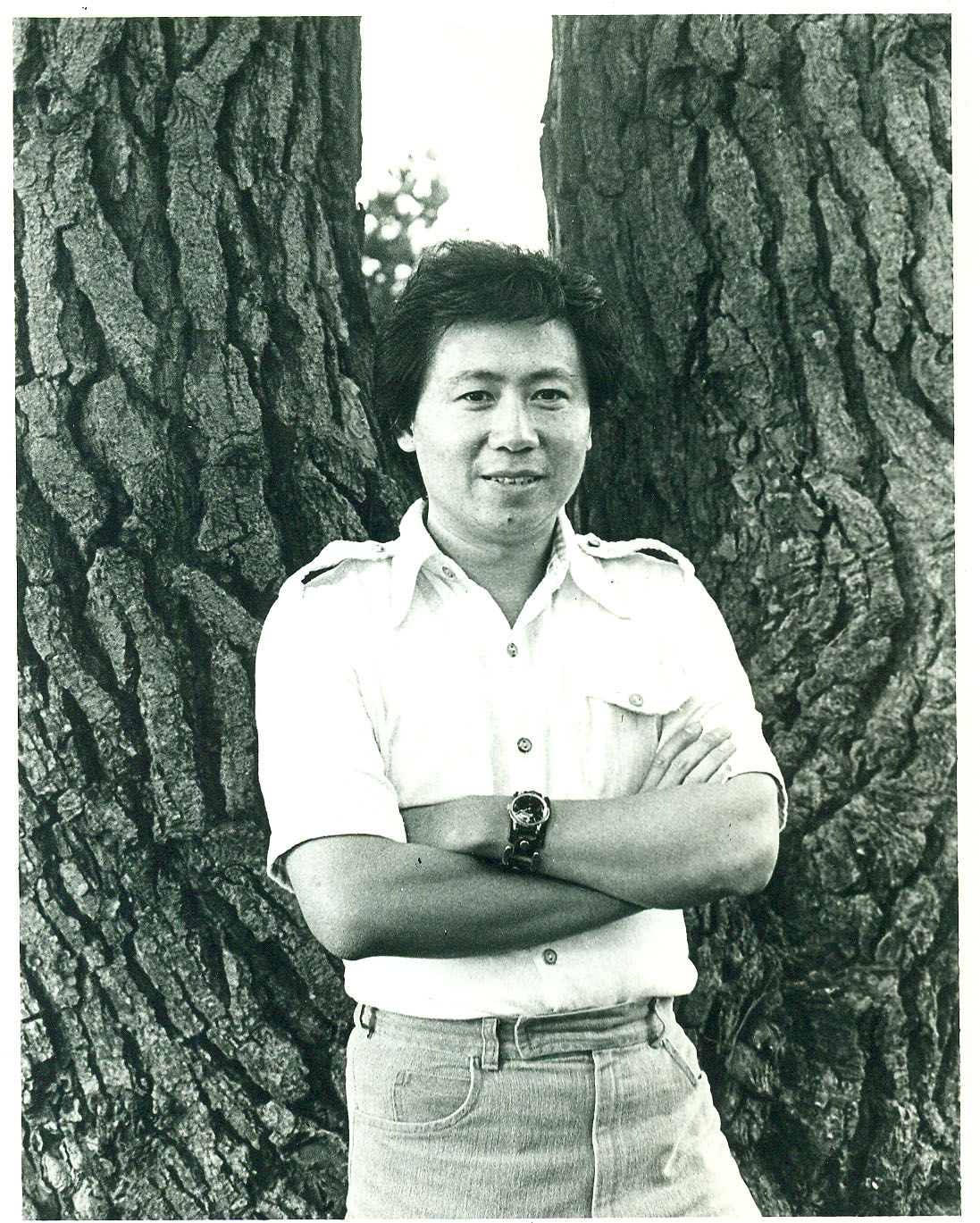 San Francisco writer Benjamin Tong, 1975, in San Francisco, California. Photograph by Nancy Wong